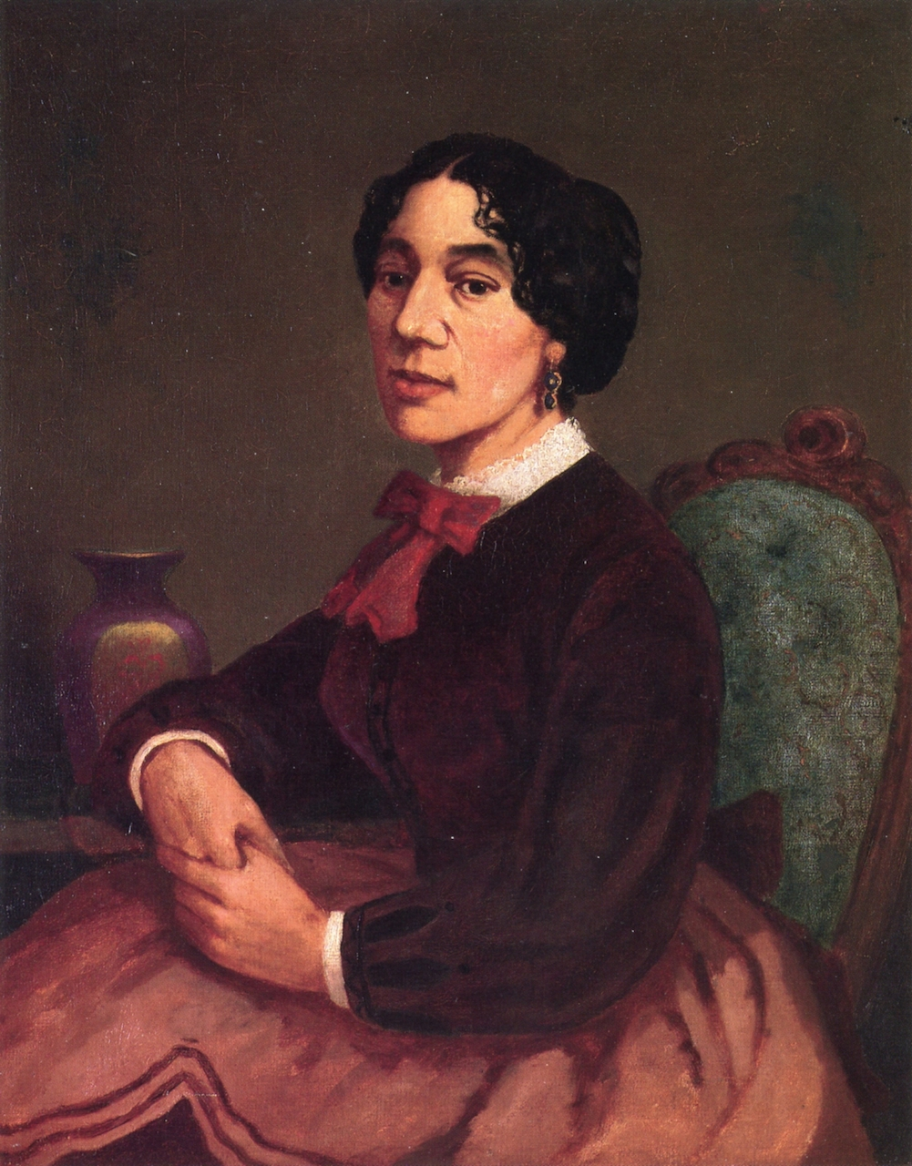 Portrait of Christiana Carteaux Bannister Author/Artist: Edward Mitchell Bannister Owner/Location: Newport Art Museum - Rhode Island (United States - Newport, Rhode Island) Dates: Date unknown Dimensions: Height: 90.17 cm (35.5 in.), Width: 71.12 cm (28 in.) Medium: Painting - oil on canvas